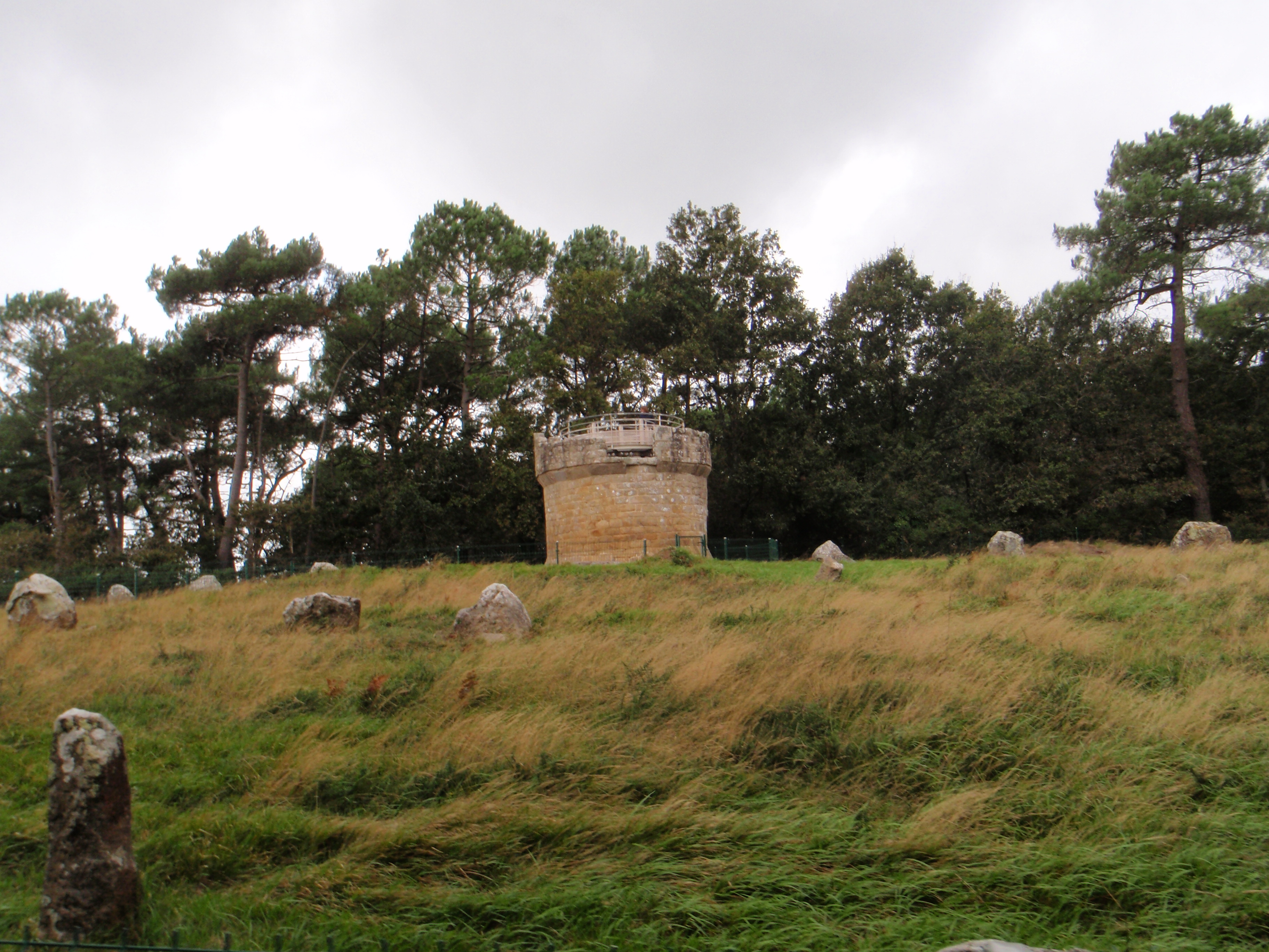 Foundation of windmill built of adjusted stones from menhirs in the surrounding landscape near Carnac